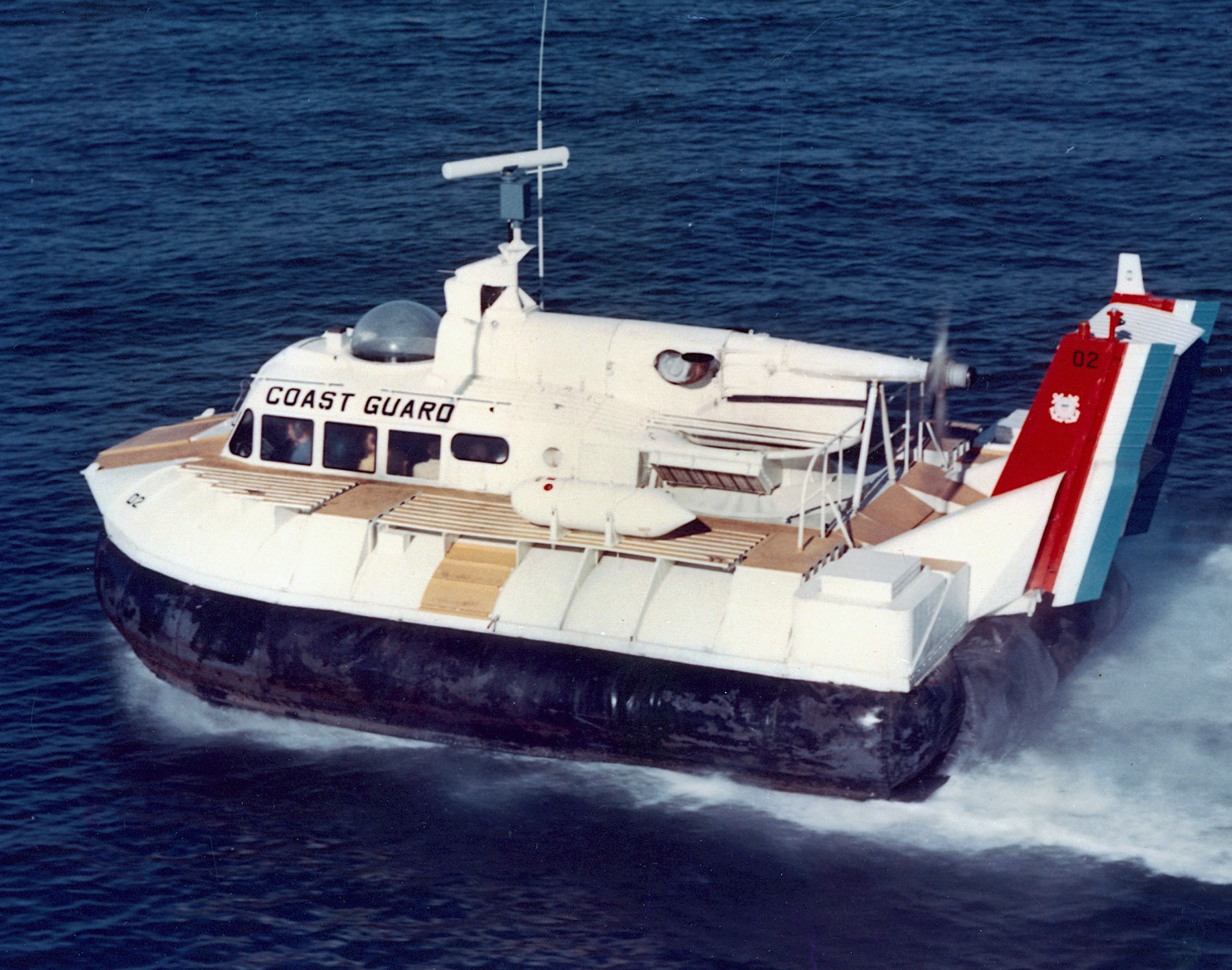 An US Coast Guard Air Cushion Vehicle (a demilitarized Patrol Air Cushion Vehicle) underway